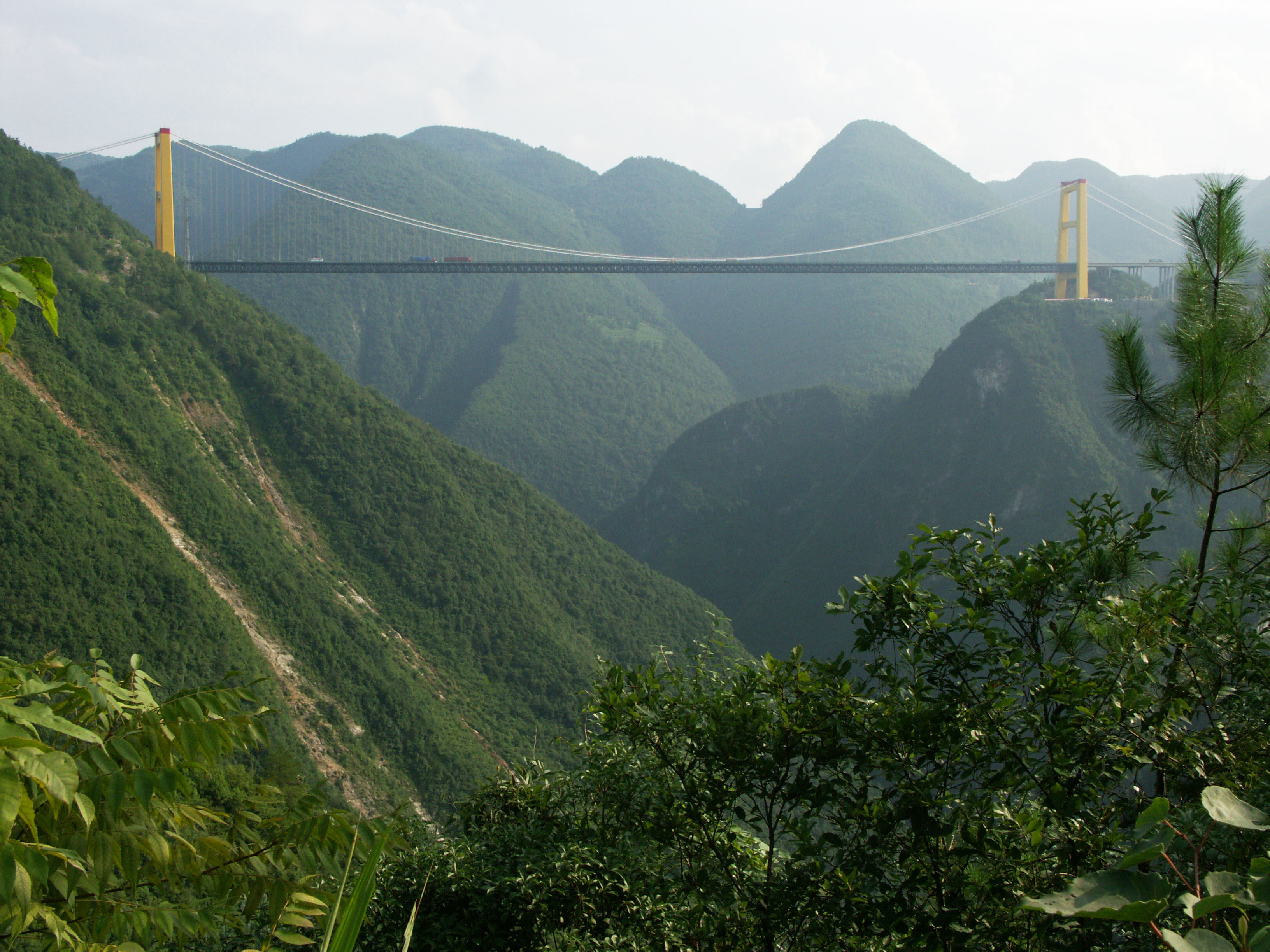 View of Siduhe Bridge from August, 2011.